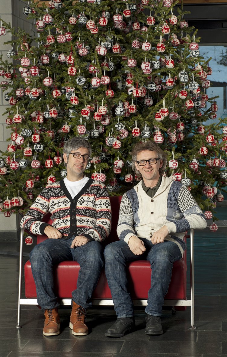 The Norwegian designer duo Arne & Carlos designed and knitted more than 1000 Christmas balls for this designer Christmas tree at the Norwegian museum Maihaugen in 2010